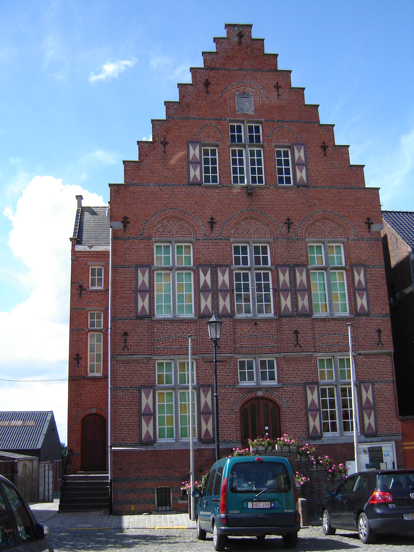 Town hall and former justice of peace in Sint-Maria-Horebeke. Sint-Maria-Horebeke, Horebeke, East Flanders, Belgium